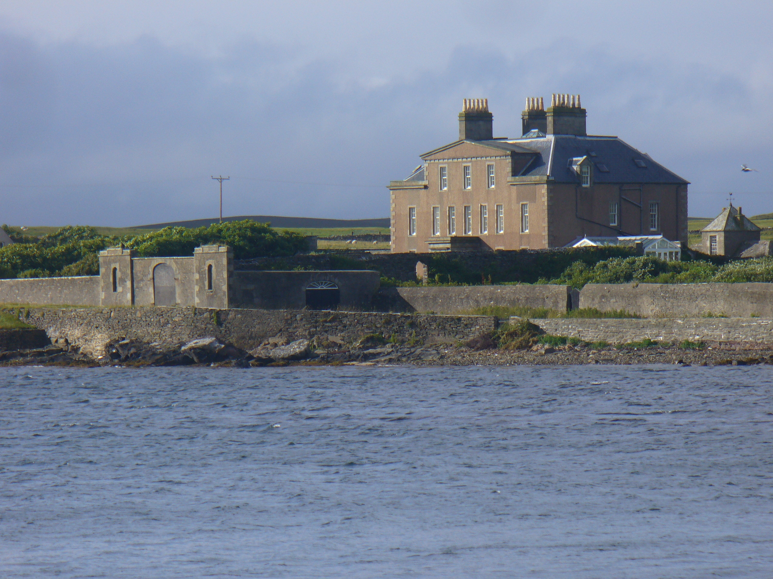 Evening at Gardie House